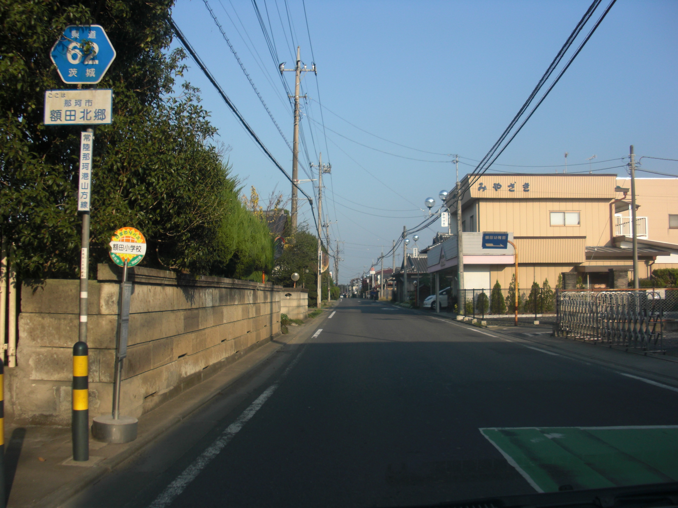 This is a landscape of ibaraki prefectural road No.62 Hitachinaka Port Yamagata Line in Naka, Ibaraki, Japan.